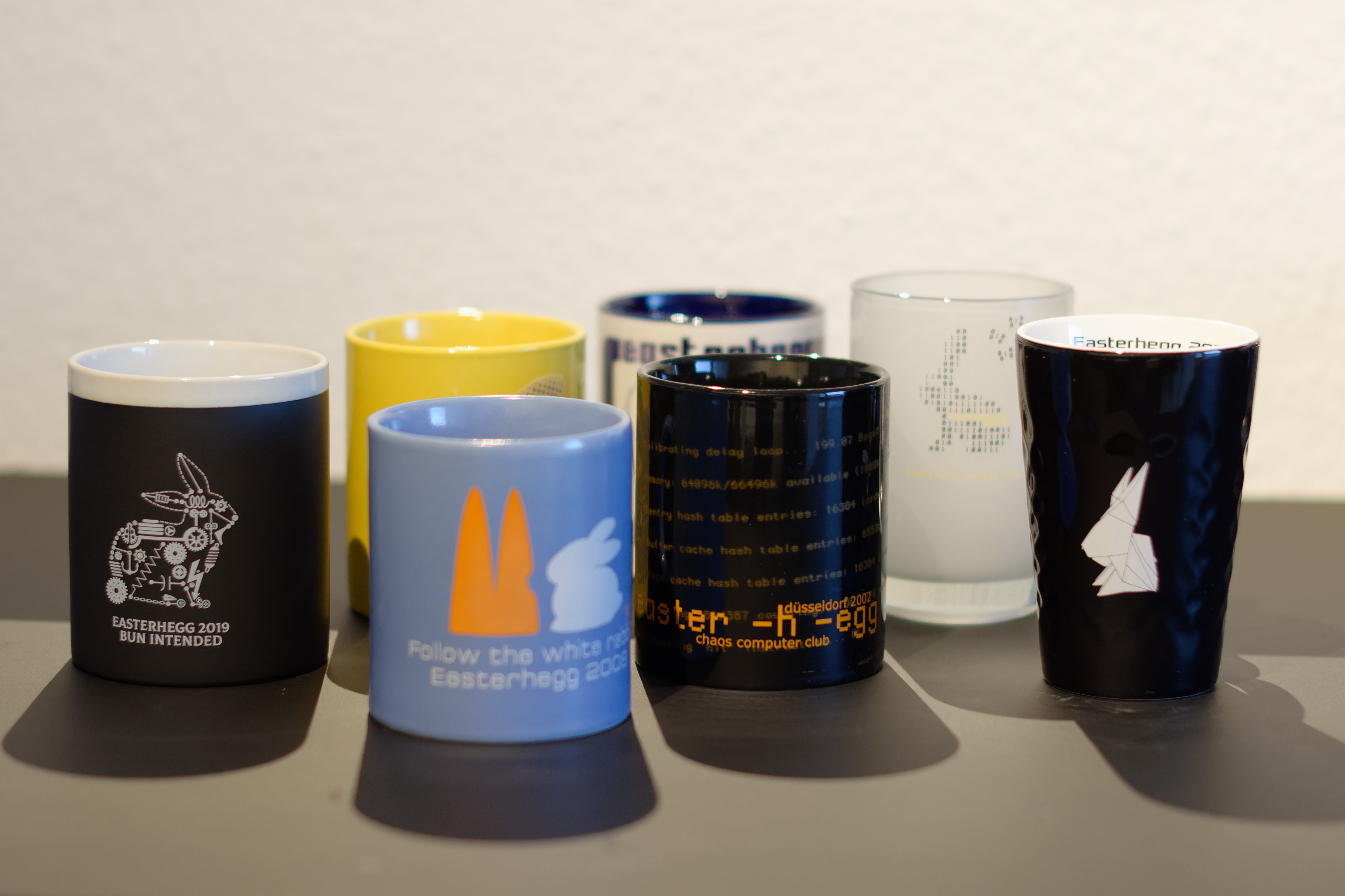 Cups from different Easterheggs of the Chaos Computer Club. fLTR: 2019 (Vienna), 2004 (Munich), 2008 (Cologne), 2009 (Hamburg), 2002 (Düsseldorf), 2018 (Würzburg), 2017 (Mühlheim a. M.)